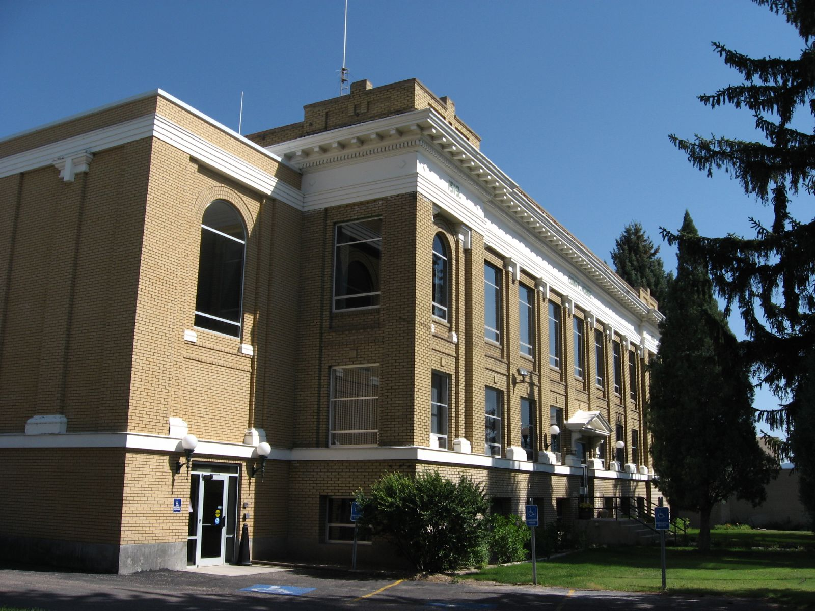 Facade of the Caribou County Courthouse — located at 159 S. Main Street in Soda Springs, Idaho, United States. Built in 1919, the courthouse is listed on the National Register of Historic Places in Caribou County, Idaho.